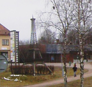 Copy of the Eiffel tower in Dala-Järna, Sweden